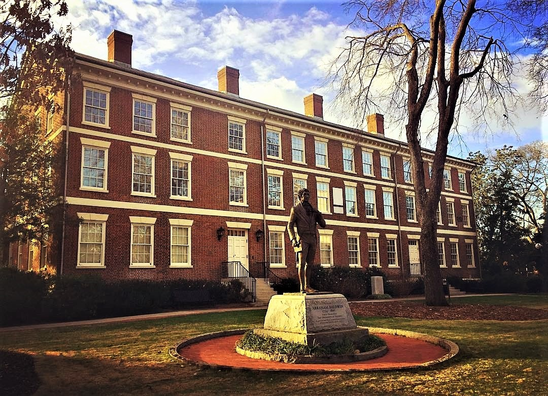 University of Georgia Old College, the oldest remaining structure on campus constructed in 1806.